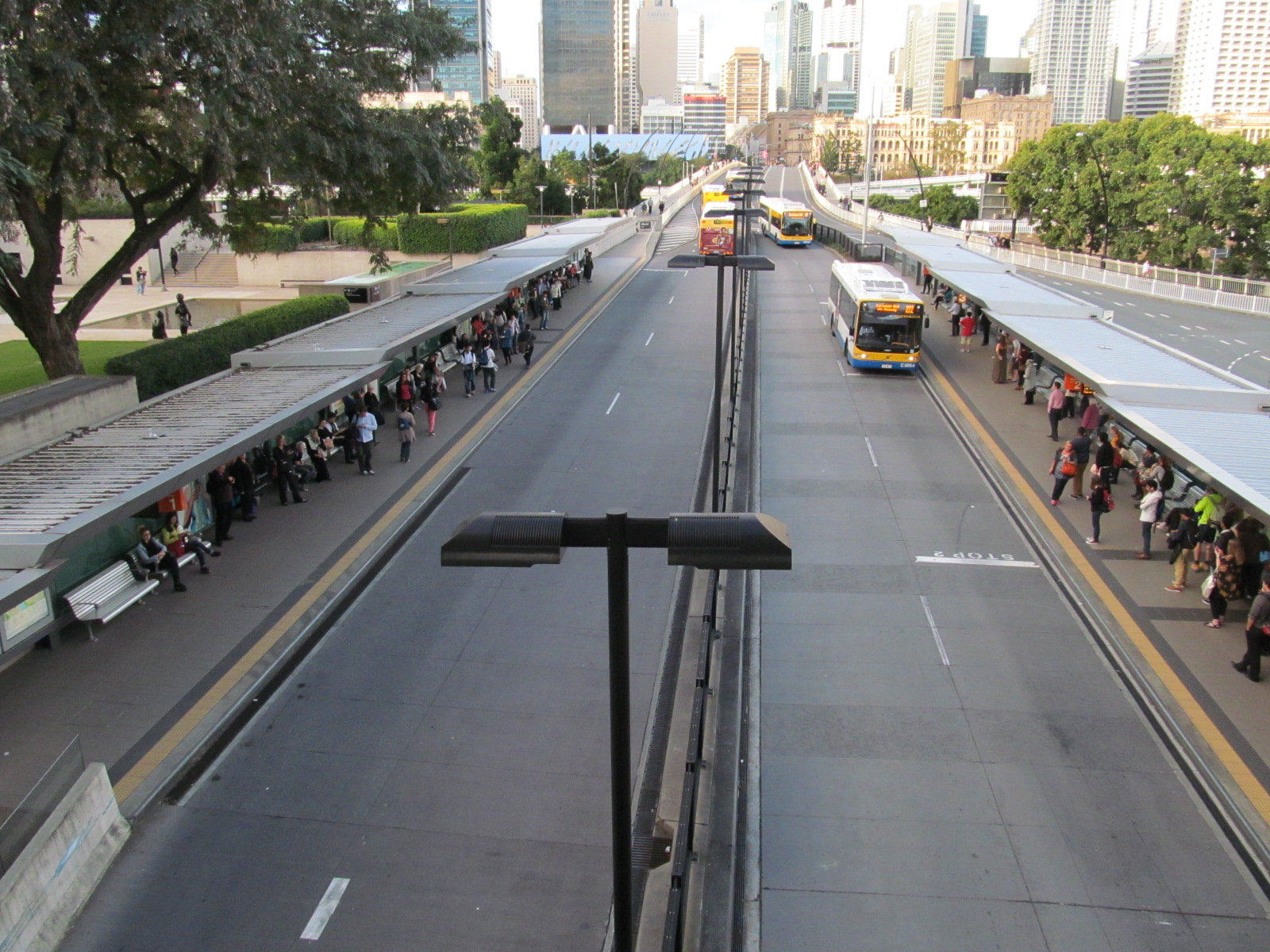 Cultural Centre busway station in South Brisbane, Queensland, looking east